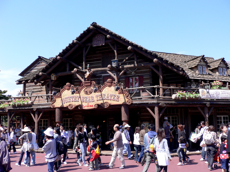 Country Bear Theater Entrance (Tokyo Disneyland)